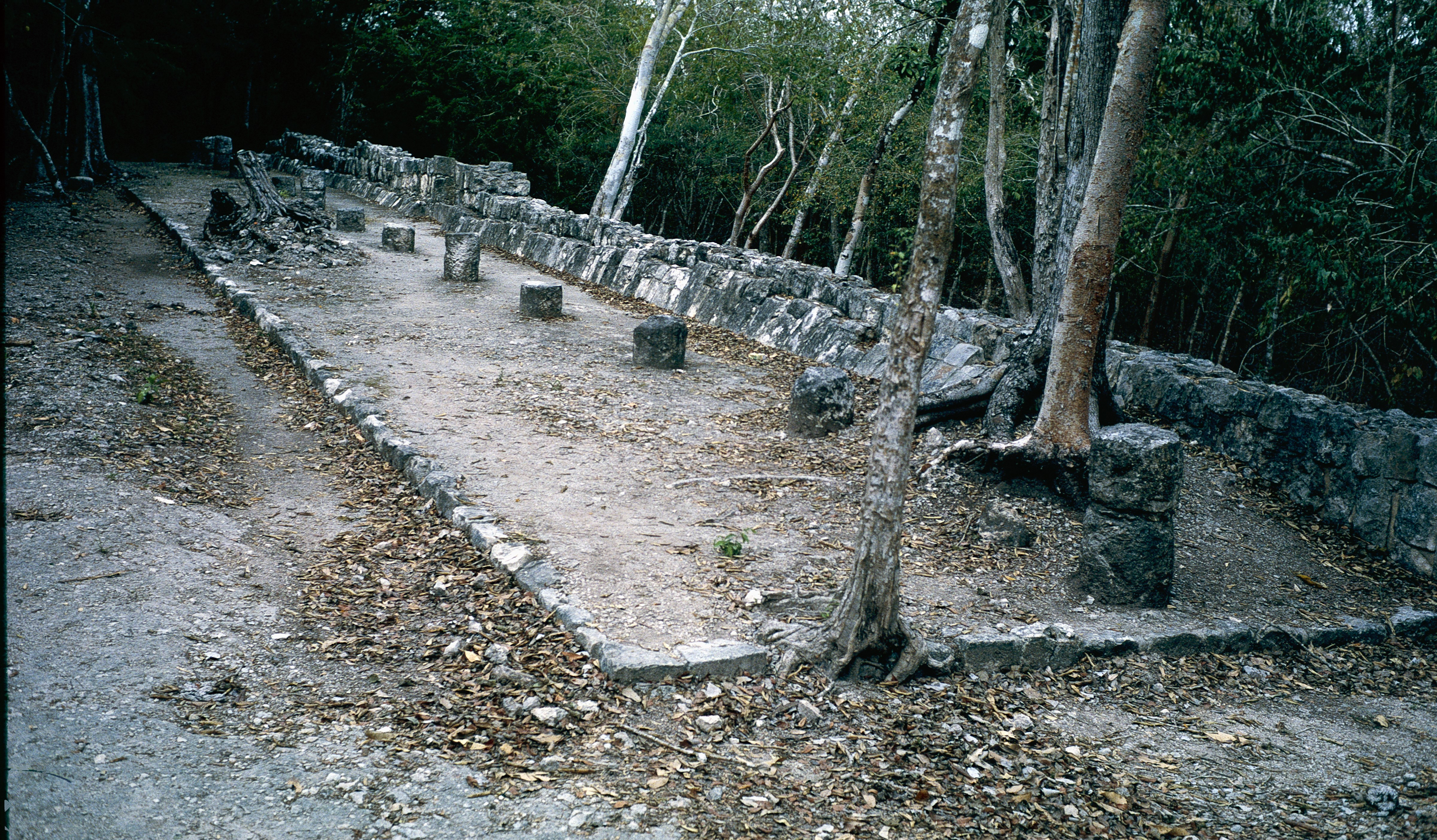 Chichen Itza, Yucatan, Mexico. northern wall of the big enclosure